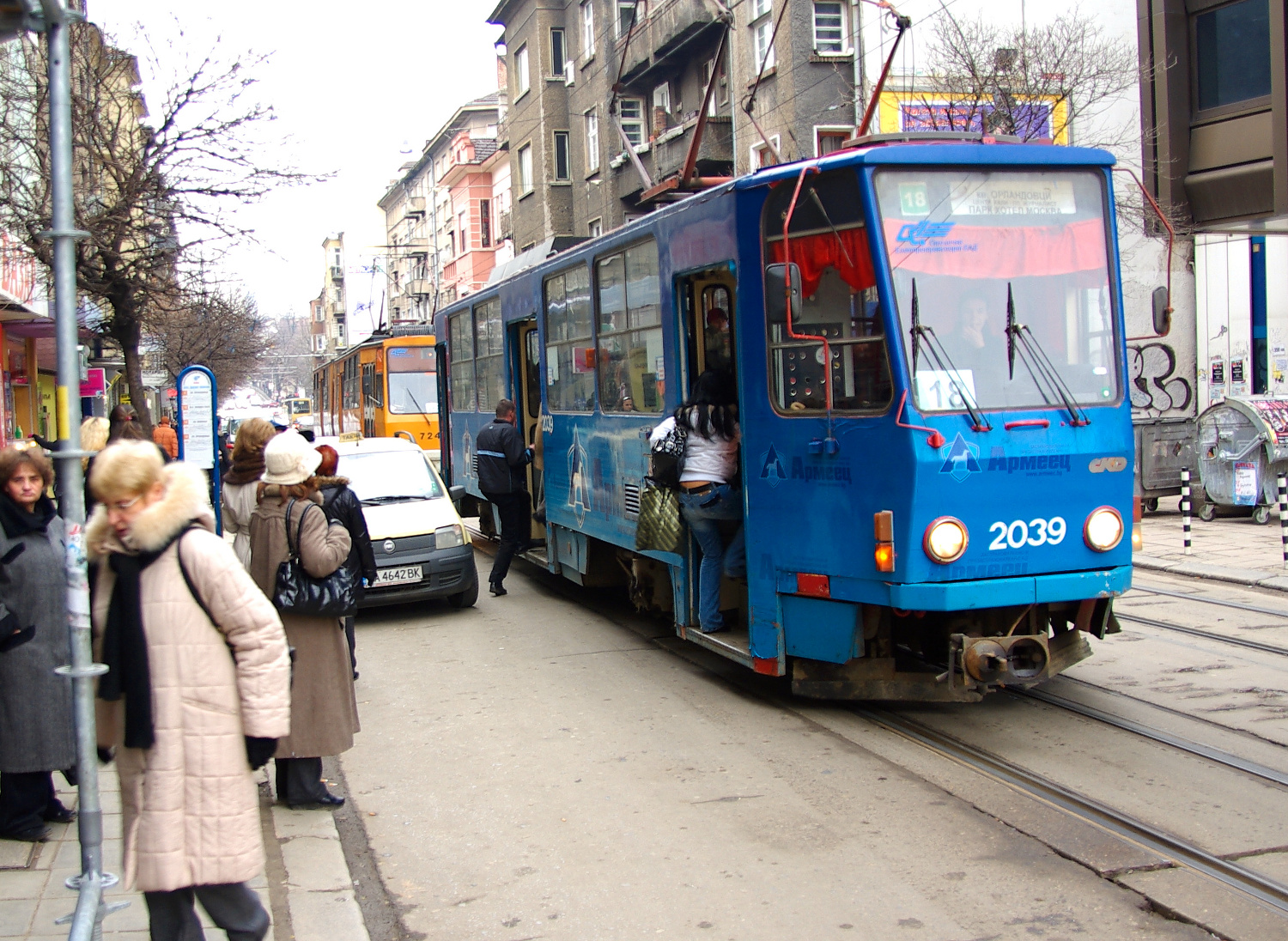 Trams in Sofia, Bulgaria.